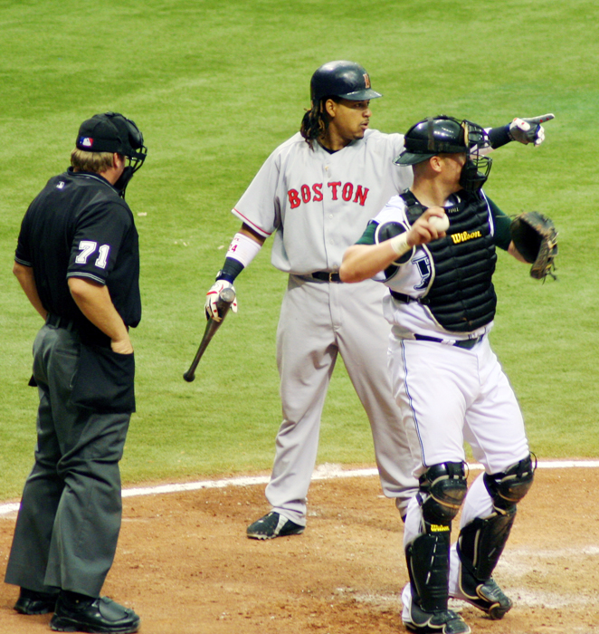 Photograph taken by Googie Man 14:16, 29 March 2007 . . Googie man . . 662×700 (506 KB)